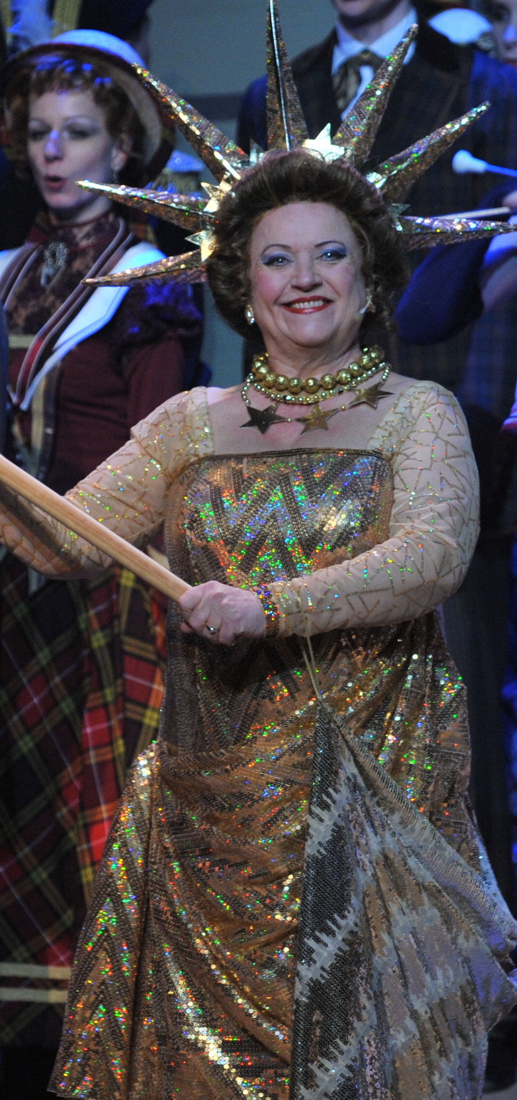 Zdena Herfortová